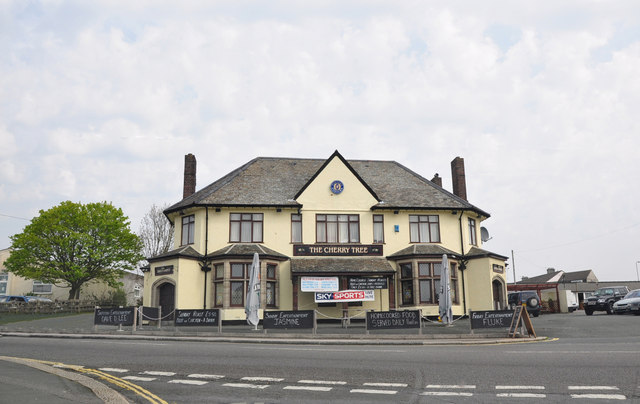 The Cherry Tree, Pennycross - Plymouth A long established hostelry that was a focal point during the '50's and 60's when speedway and greyhound racing and occasional wrestling matches were held in the stadium that once stood where there is now an industrial estate. The Cherry Tree was a 'landmark' pub - a place where buses stopped when everyone used buses and one asked for 'The Cherry Tree' or 'The Harvest Home', the latter long gone as the city grew and, some say, 'developed'. Once upon a time it also proudly boasted that it sold Gold medal winning Plymouth Brewery Beers - as long gone as The Harvest Home!